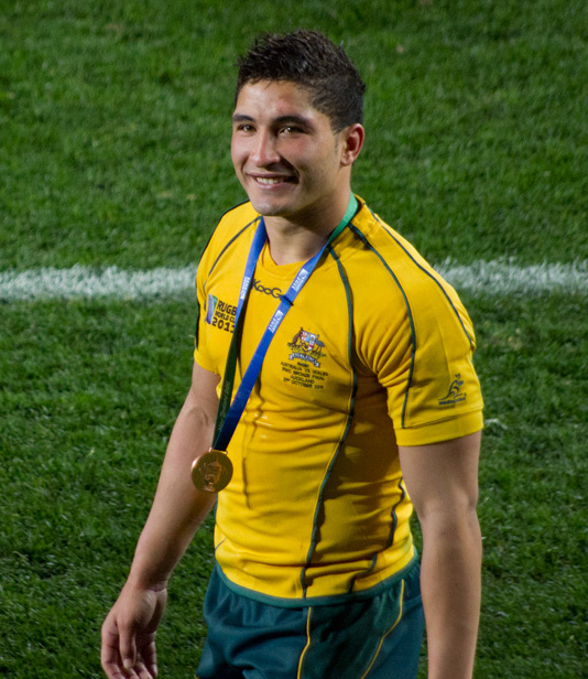 Australian rugby union player Anthony Fainga'a after 2011 Rugby World Cup Bronze Final against Wales.